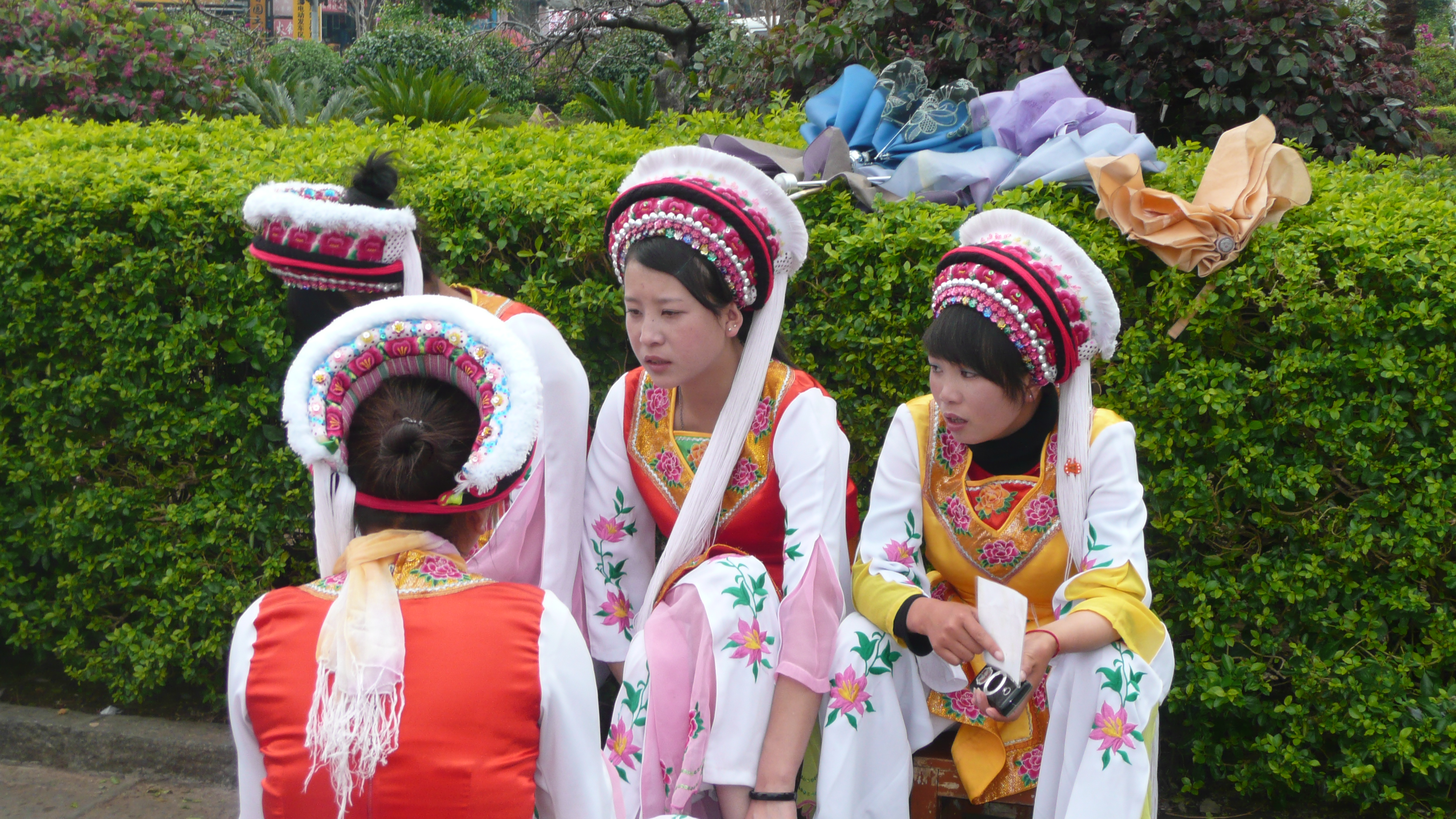 Bai minority in Dali (Yunnan)